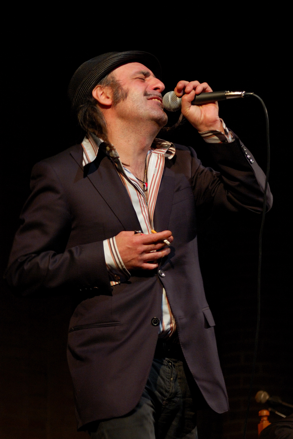 The Spanish songwriter Tonino Carotone in a live performance in Modena (Italy)